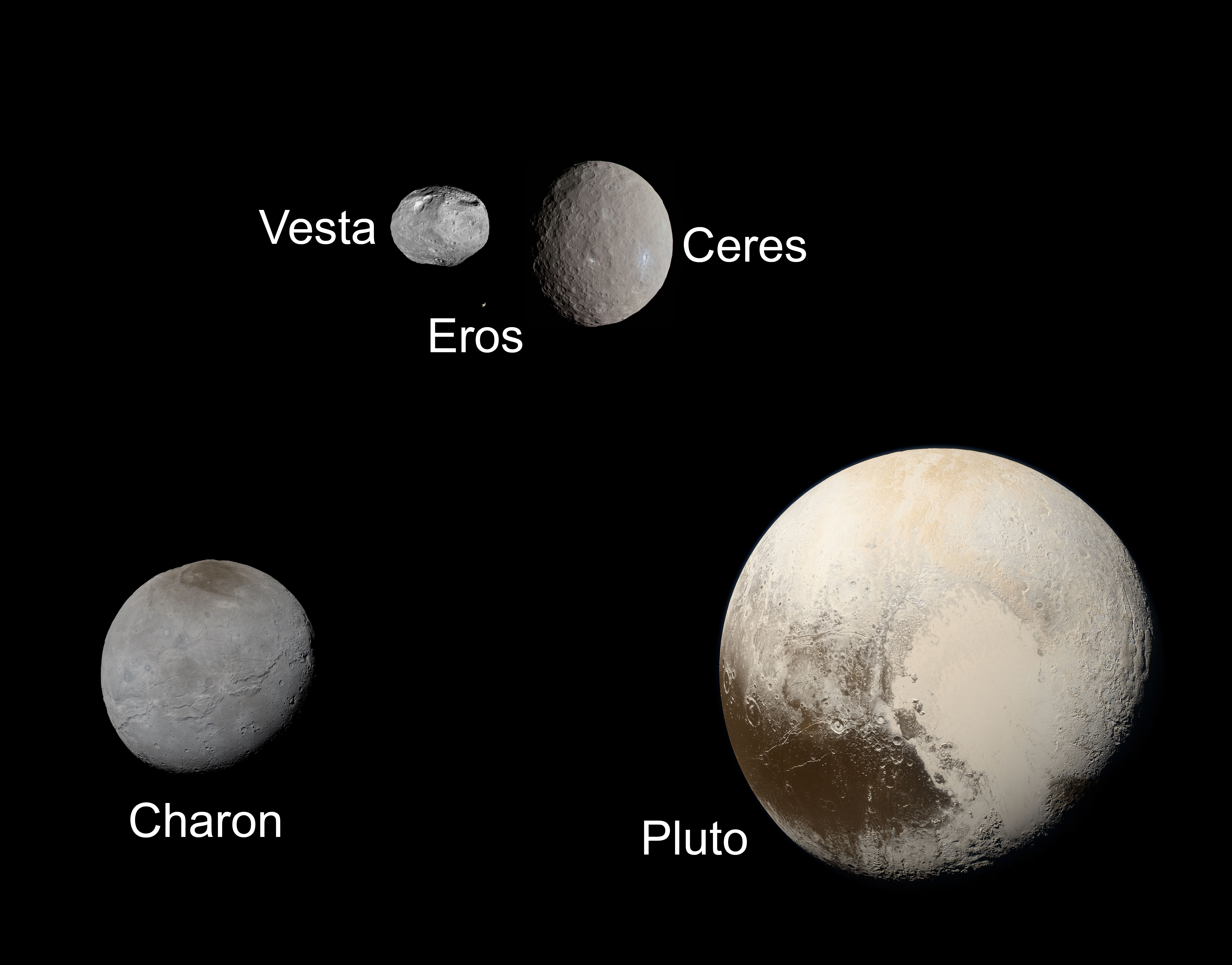 The asteroids Ceres, Vesta, and Eros compared to the sizes of Pluto and its moon Charon. Ceres is by far the largest object found within the asteroid belt, and the only object within the region known to be in hydrostatic equilibrium. It is smaller and less massive than Charon. If all of the mass found within the asteroid belt were to be clumped together, it would be roughly twice as massive as Charon.